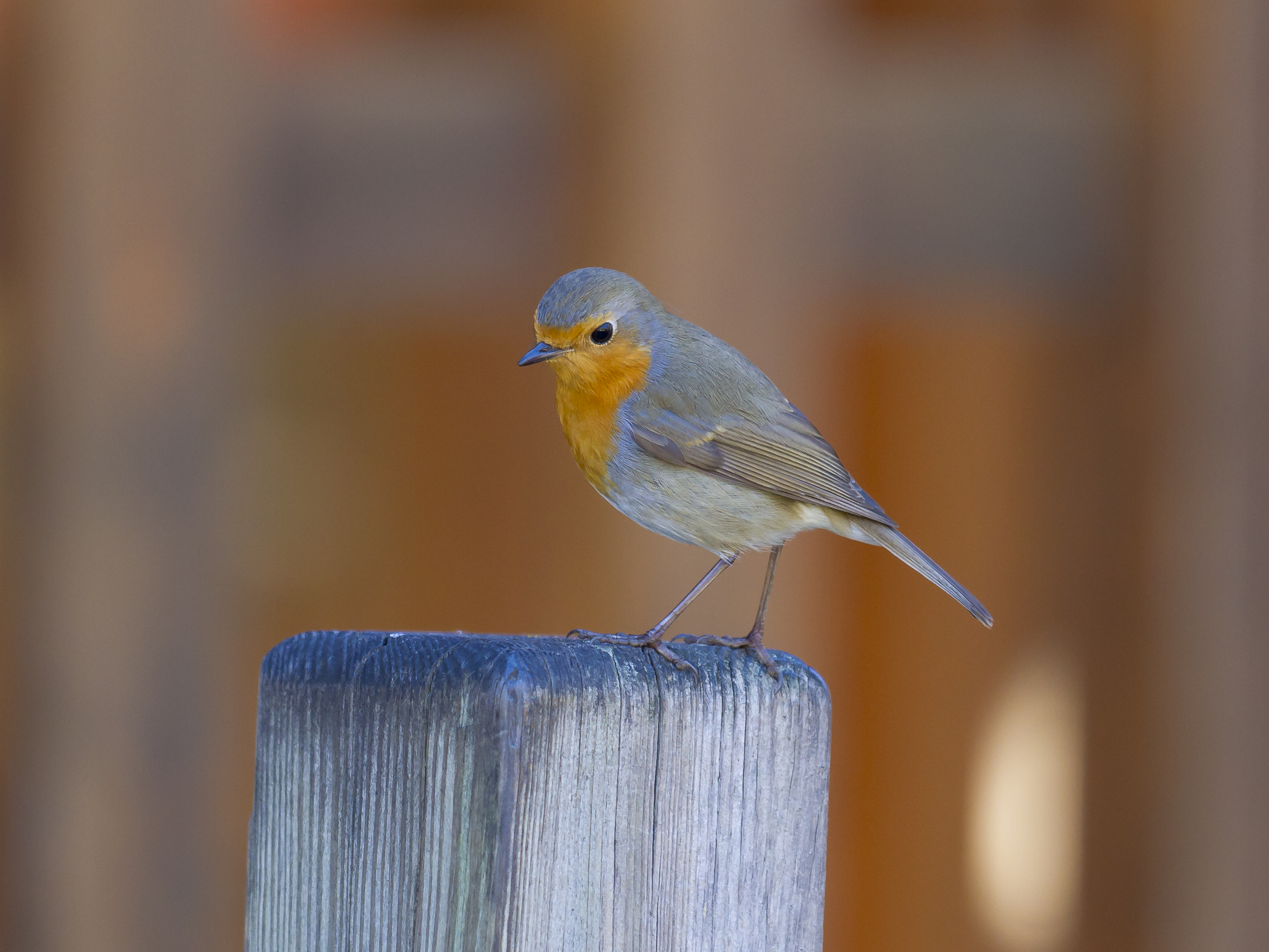 Erithacus rubecula in the japanese tea house of Compans Caffarelli in Toulouse